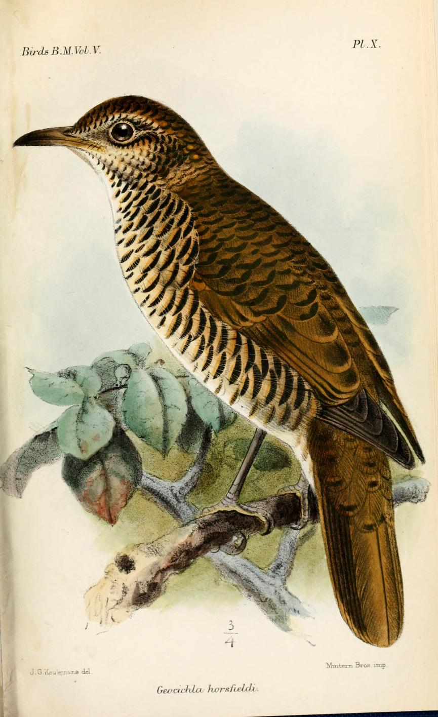 Geocichla horsfieldi (=Zoothera dauma horsfieldi) Horsfield's Thrush (Scaly Thrush ssp.)